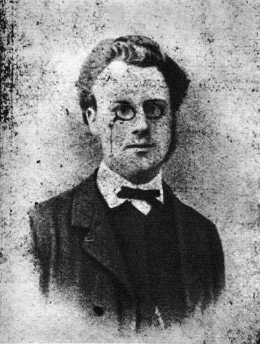 Georges Izambard, photo anonyme vers 1870.